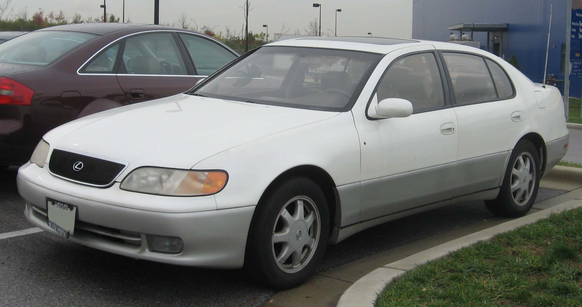 1991-1996 Lexus GS photographed in College Park, Maryland, USA.